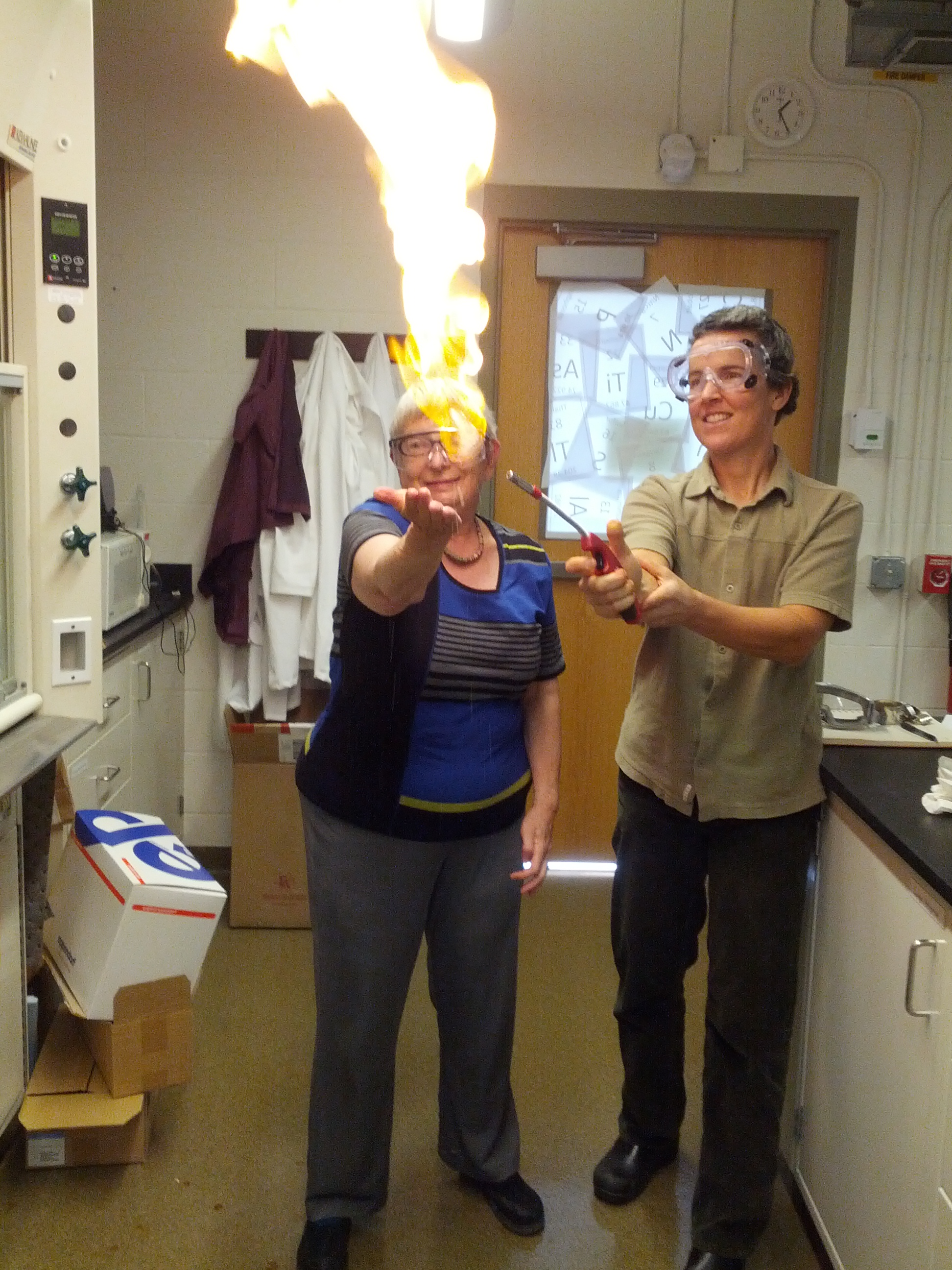 Flaming Alexandra Navrotsky